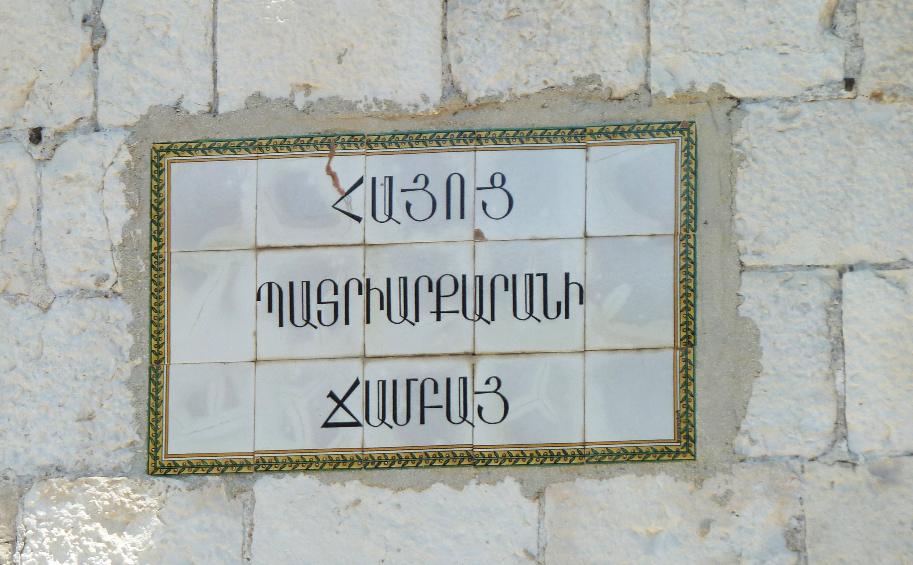 Wikimania 2011 Jerusalem Tour